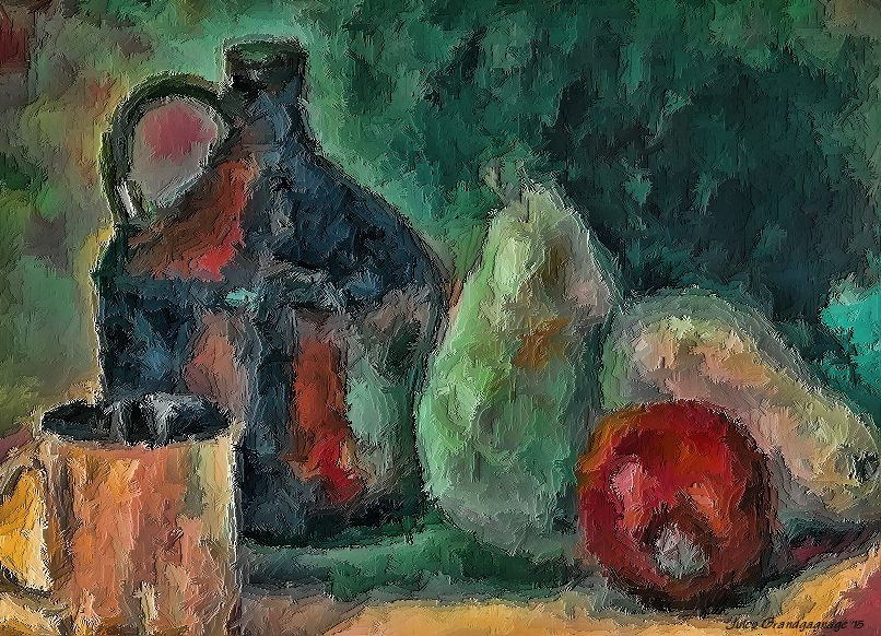 Still life with painting knife by Julien Grandgagnage